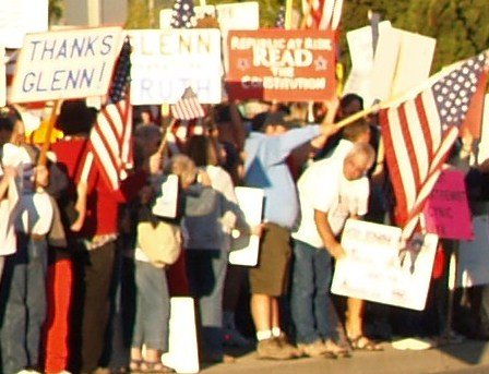 Cropped from a photo of predominantly Glenn Beck supporters rallying with placards in Beck's hometown of Mt. Vernon, Washington, outside the venue where Beck received the ceremonial key to the town